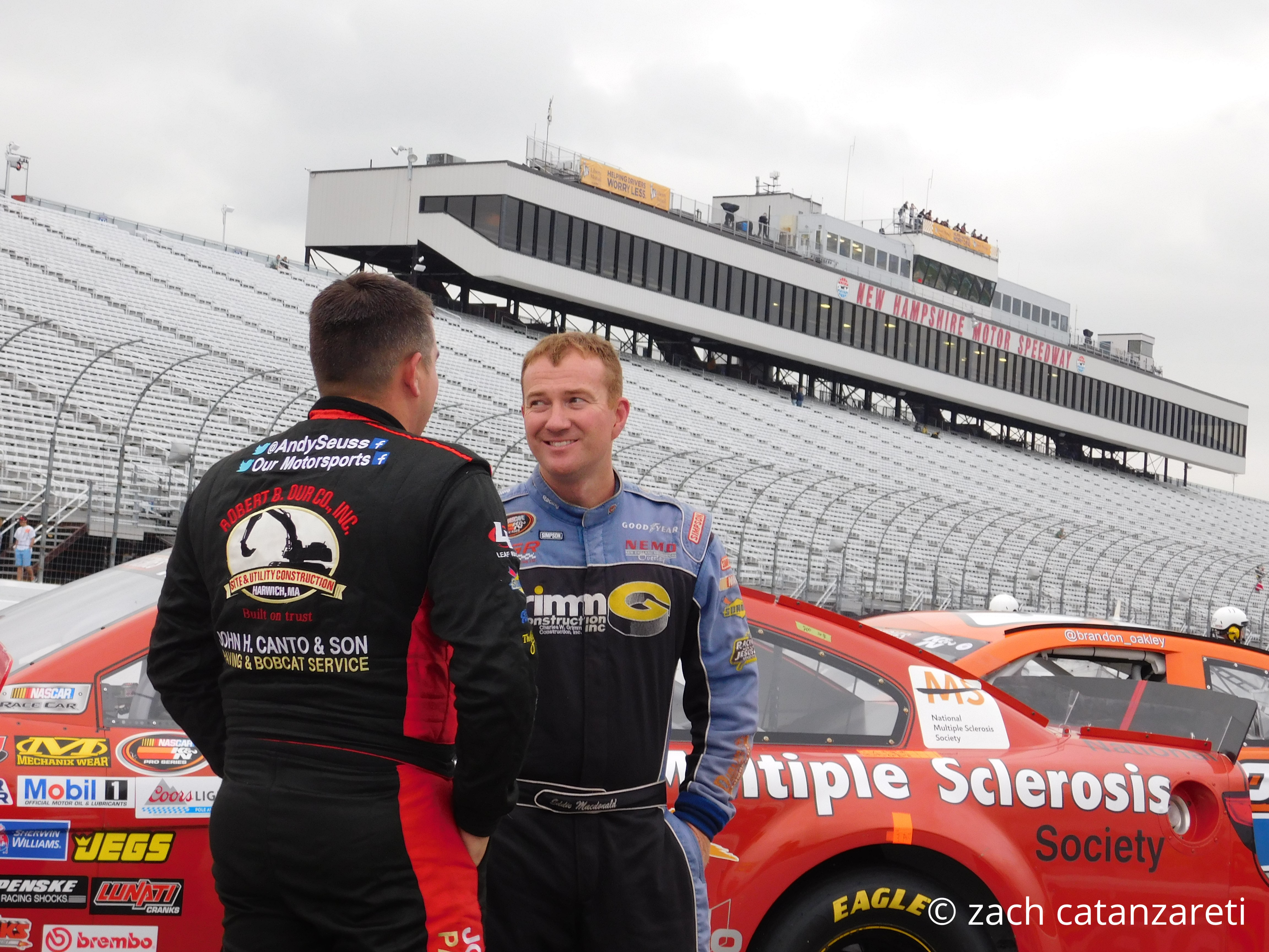 Eddie MacDonald talking with Andy Seuss at New Hampshire Motor Speedway in 2017